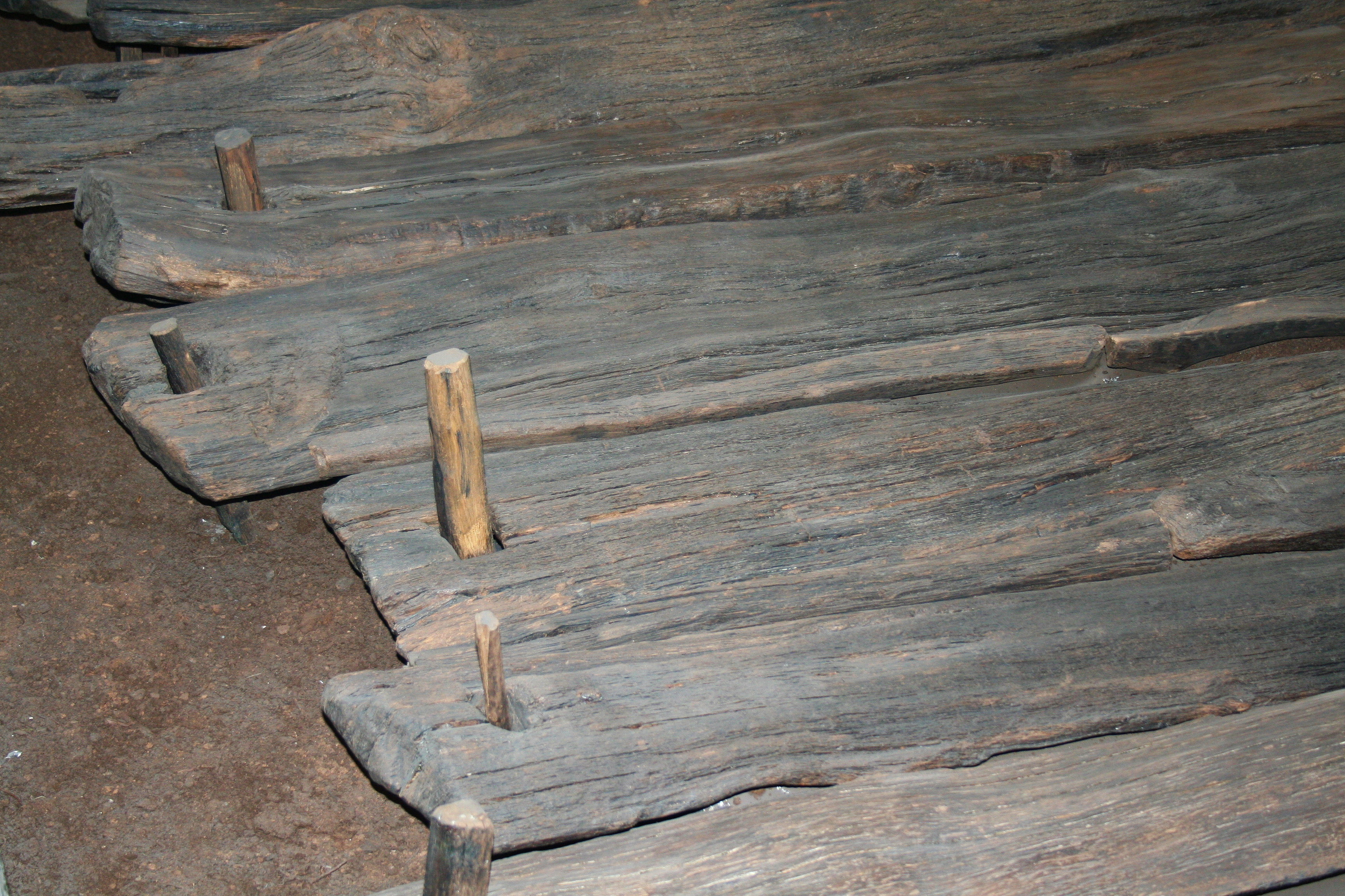 Detail of Corlea Trackway - County Longford / Ireland